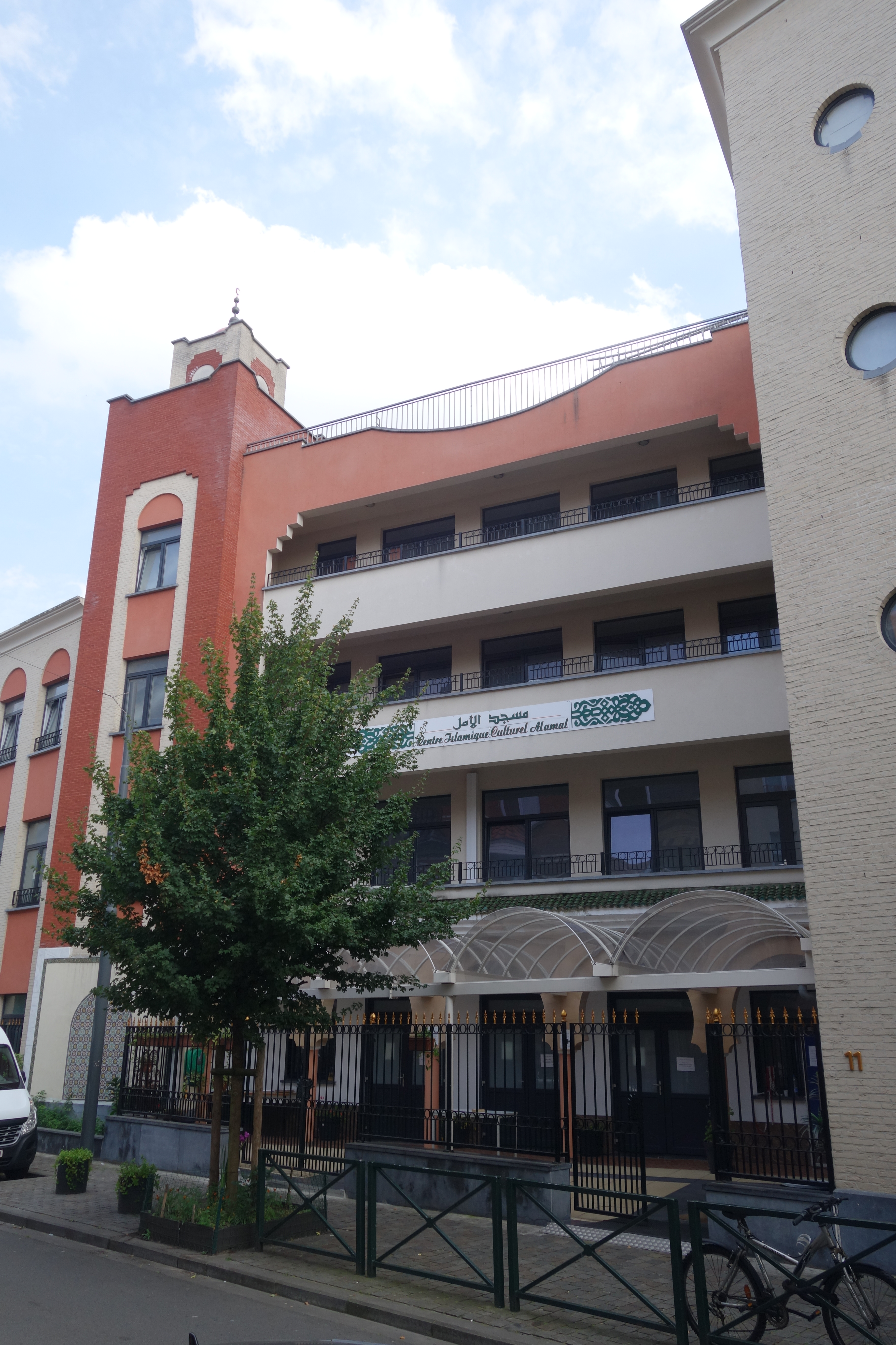 Al Amal mosque, Anderlecht (Dinayet)